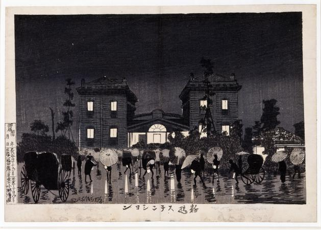 He drew night light consciously.